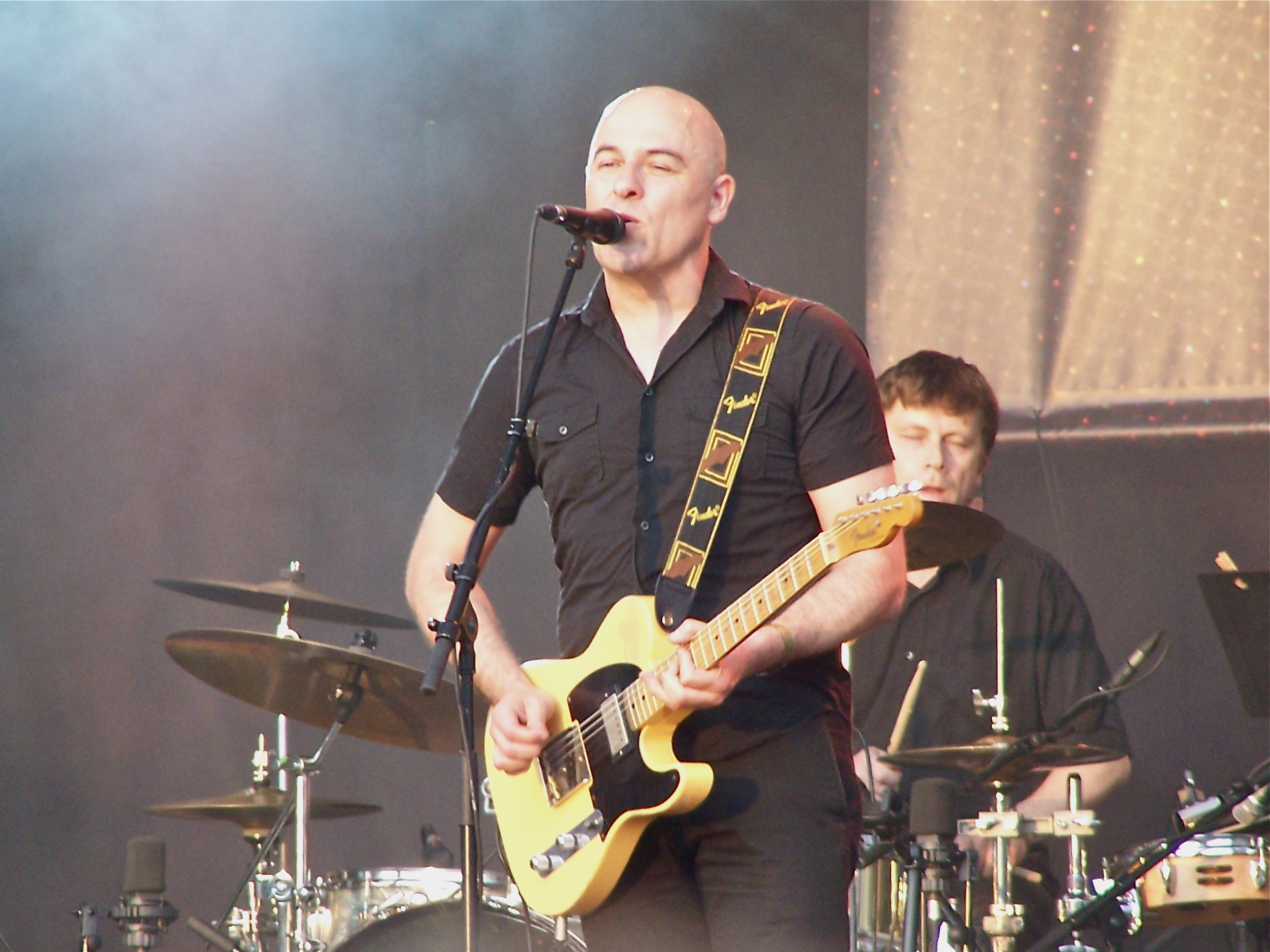 French singer Dominique A in july 2012 at Festival Fnac Live Paris